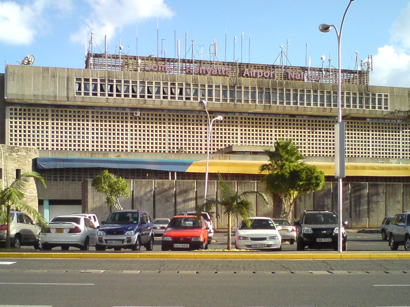 A view of the Jomo Kenyatta International Airport, Nairobi.